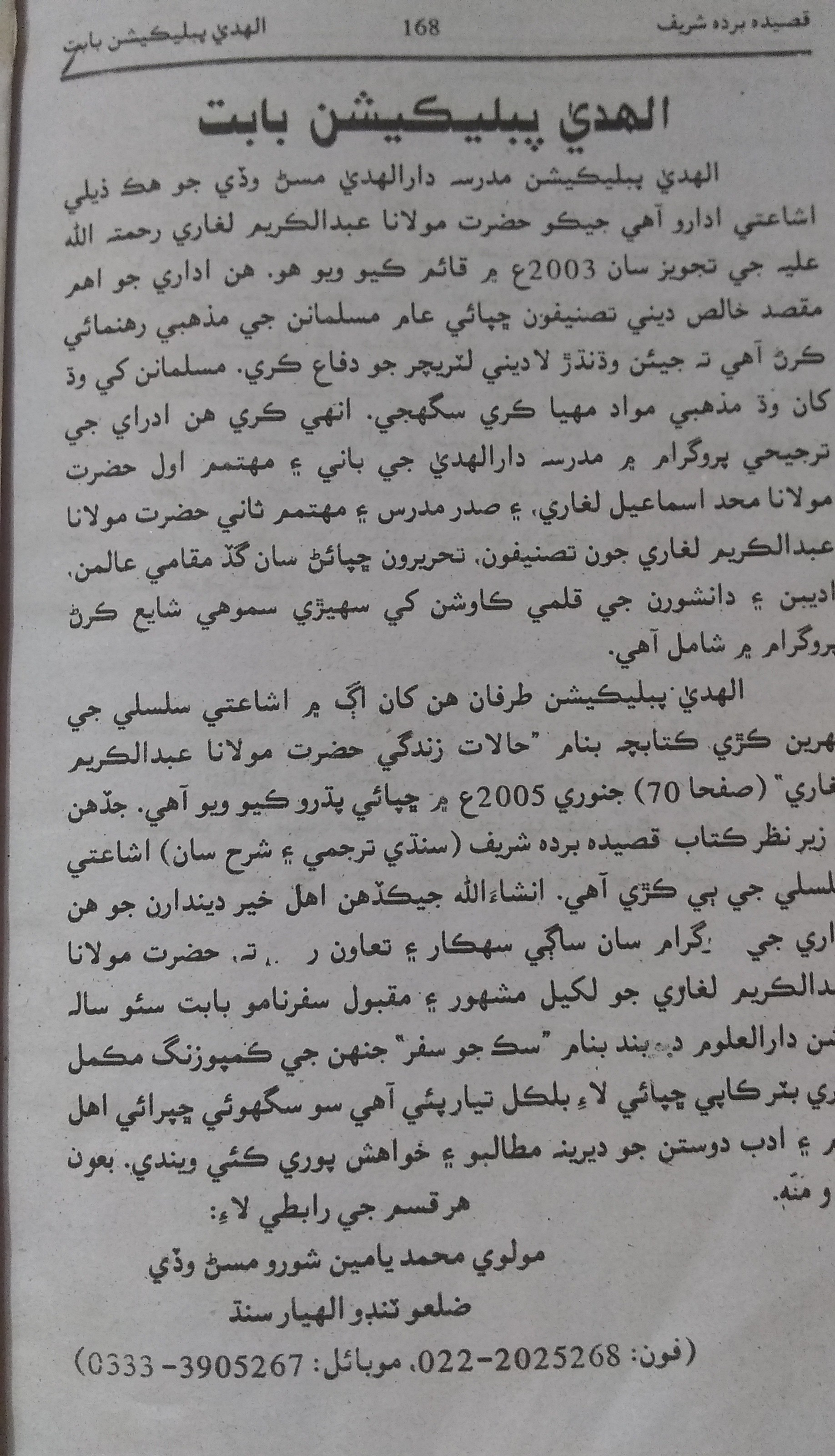 مولوی عبد الکریم